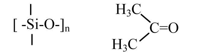 polysiloxane and acetone structures